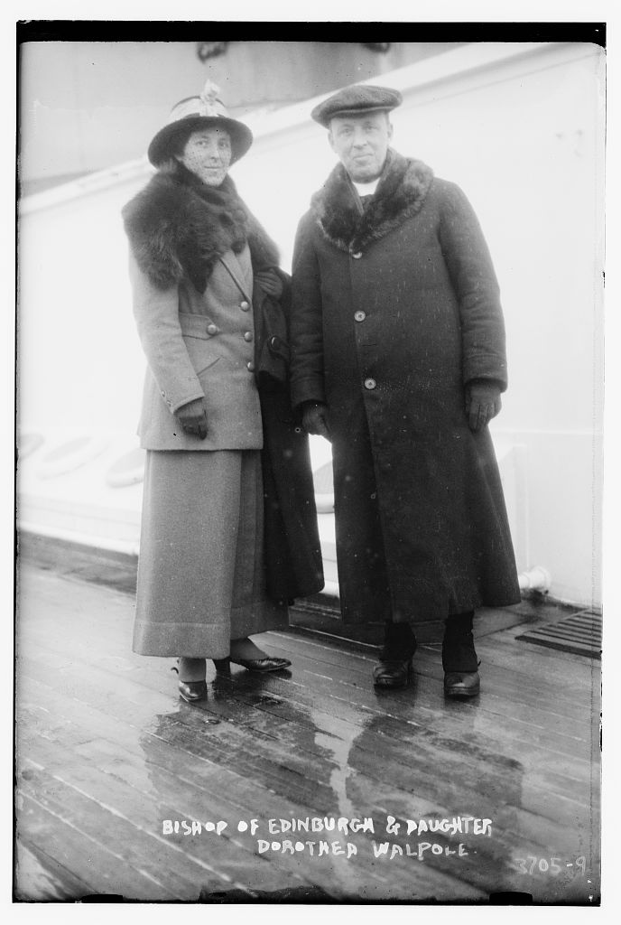 The Right Reverend George Henry Somerset Walpole (9 November 1854 – 4 March 1929) on December 18, 1915 arriving in New York aboard the Holland-America Line's SS Noordam.